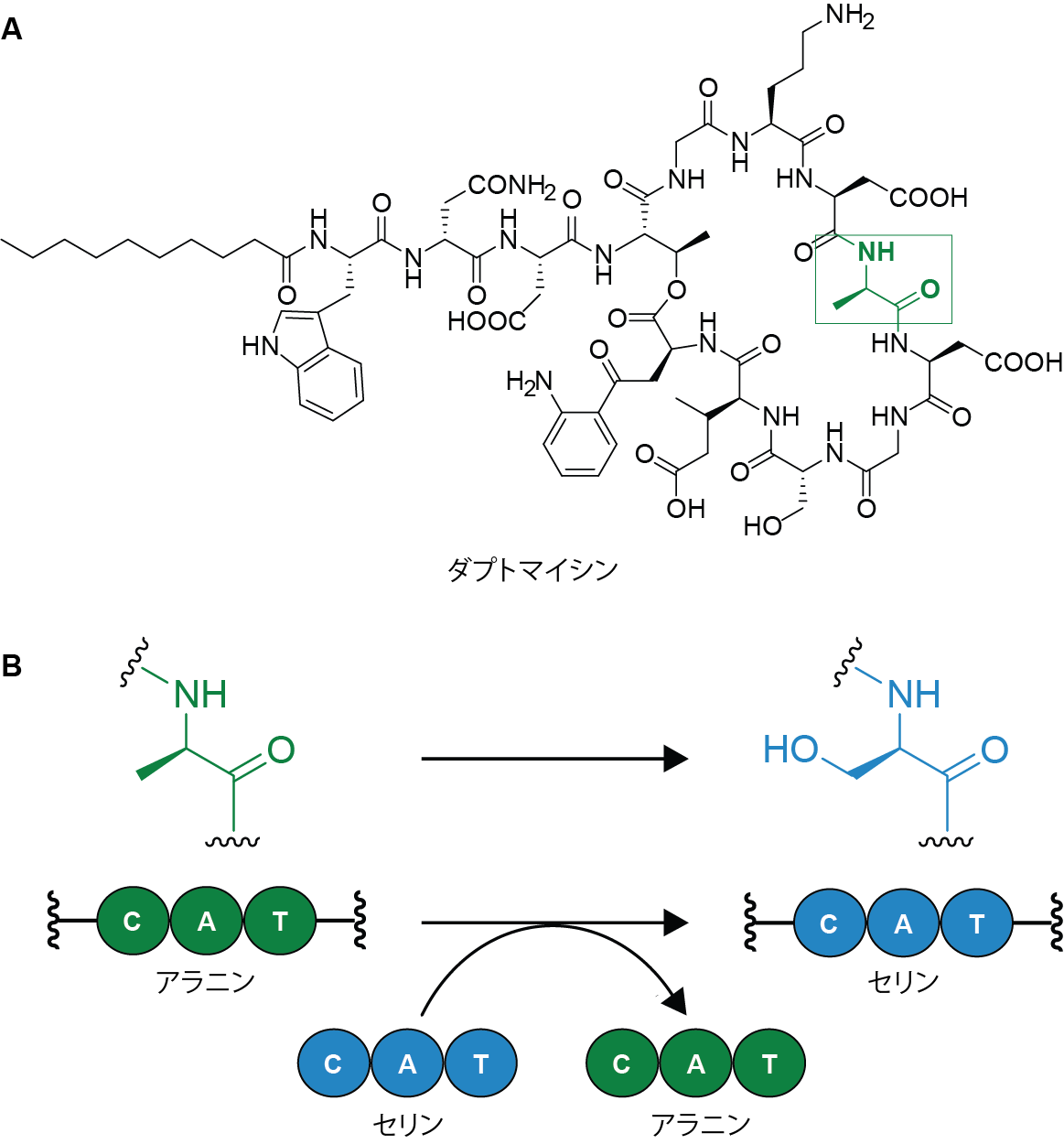 Example 5 of combinatorial biosynthesis (Japanese).